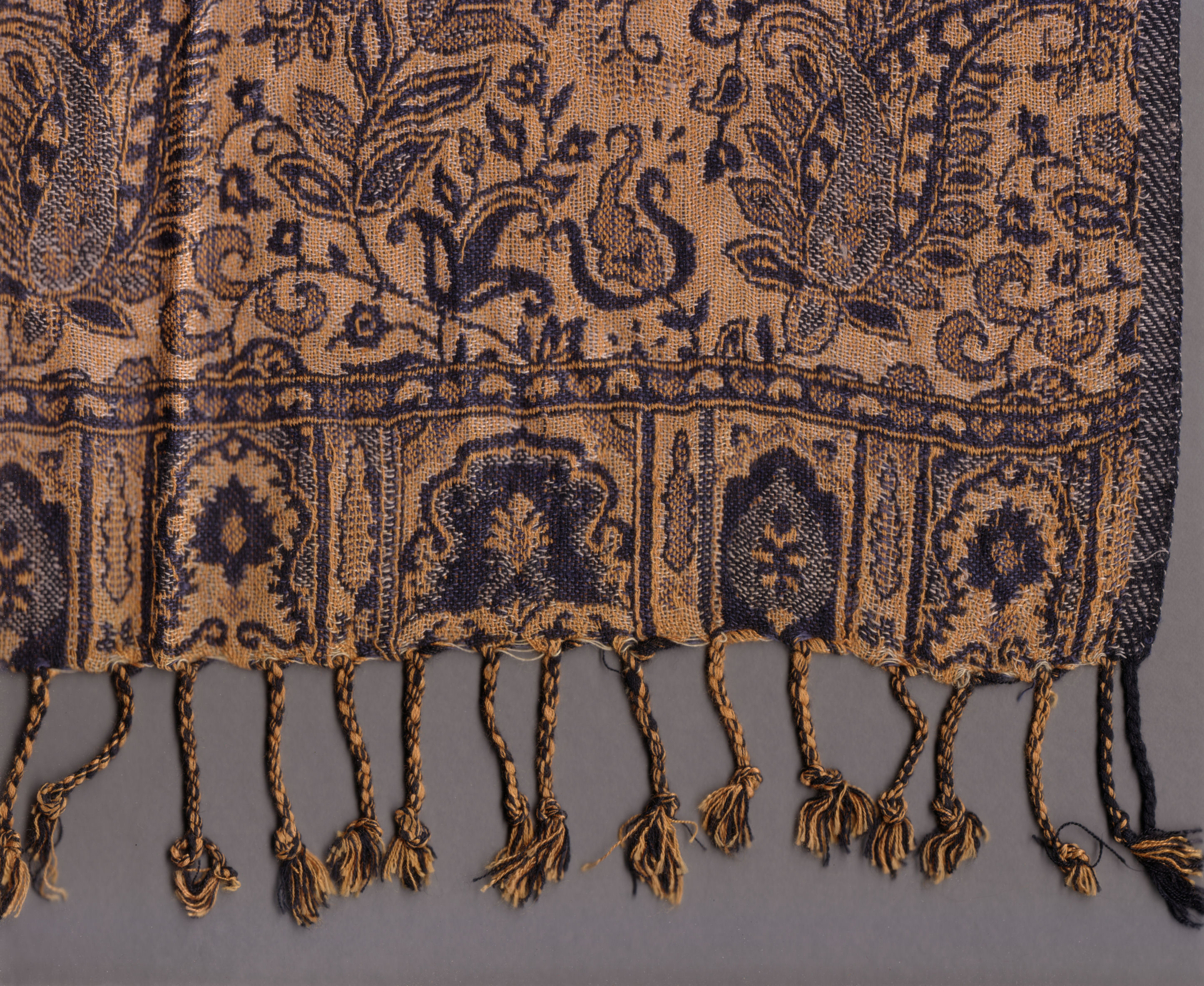 Detail of shawl in woven paisley pattern, 40% cashmere-30% silk-30% Viscose (per label), with tasselled fringe, early 21st century